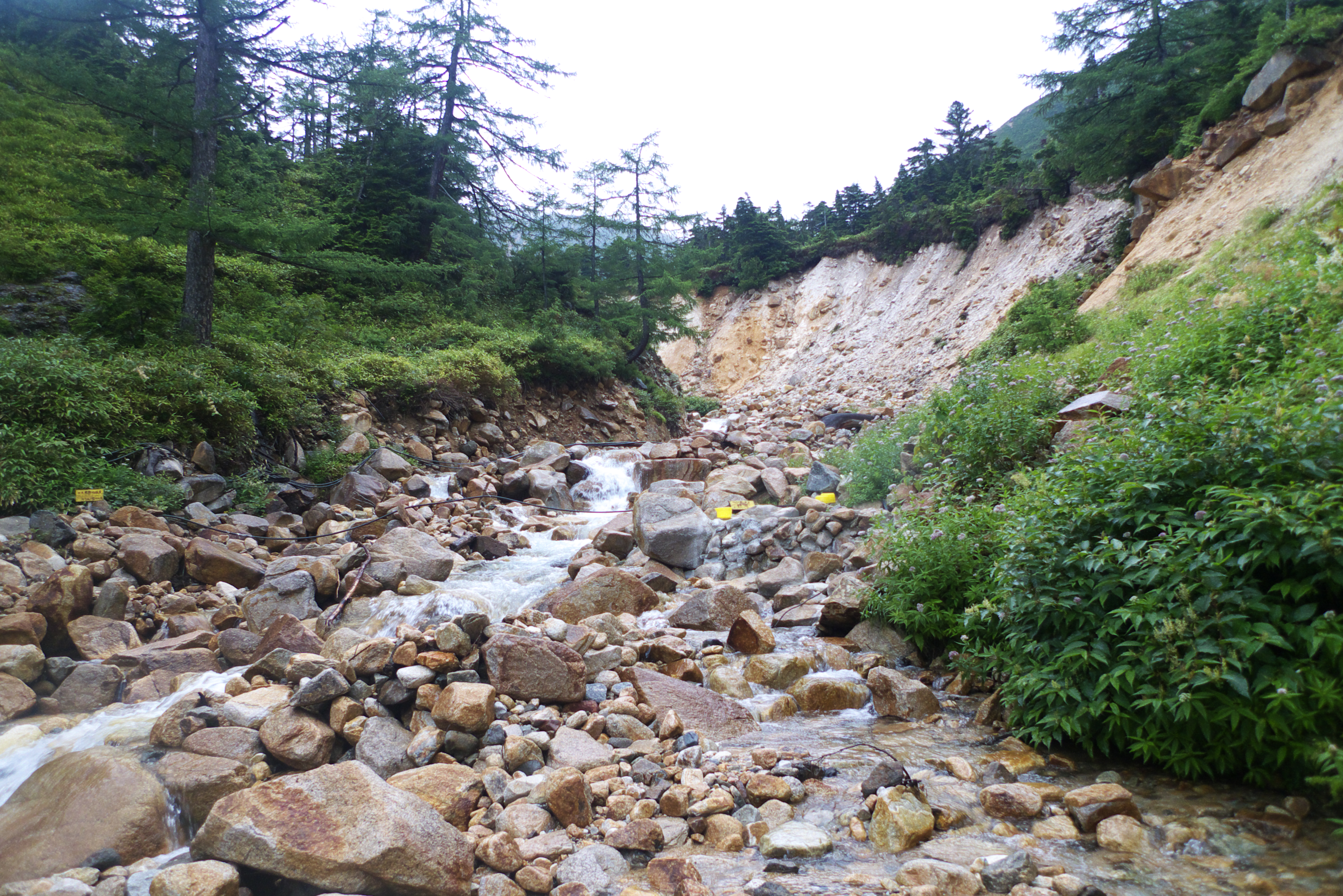 Onsensawa, a tributary of Kurobe River, and Takamagahara Hot Spring